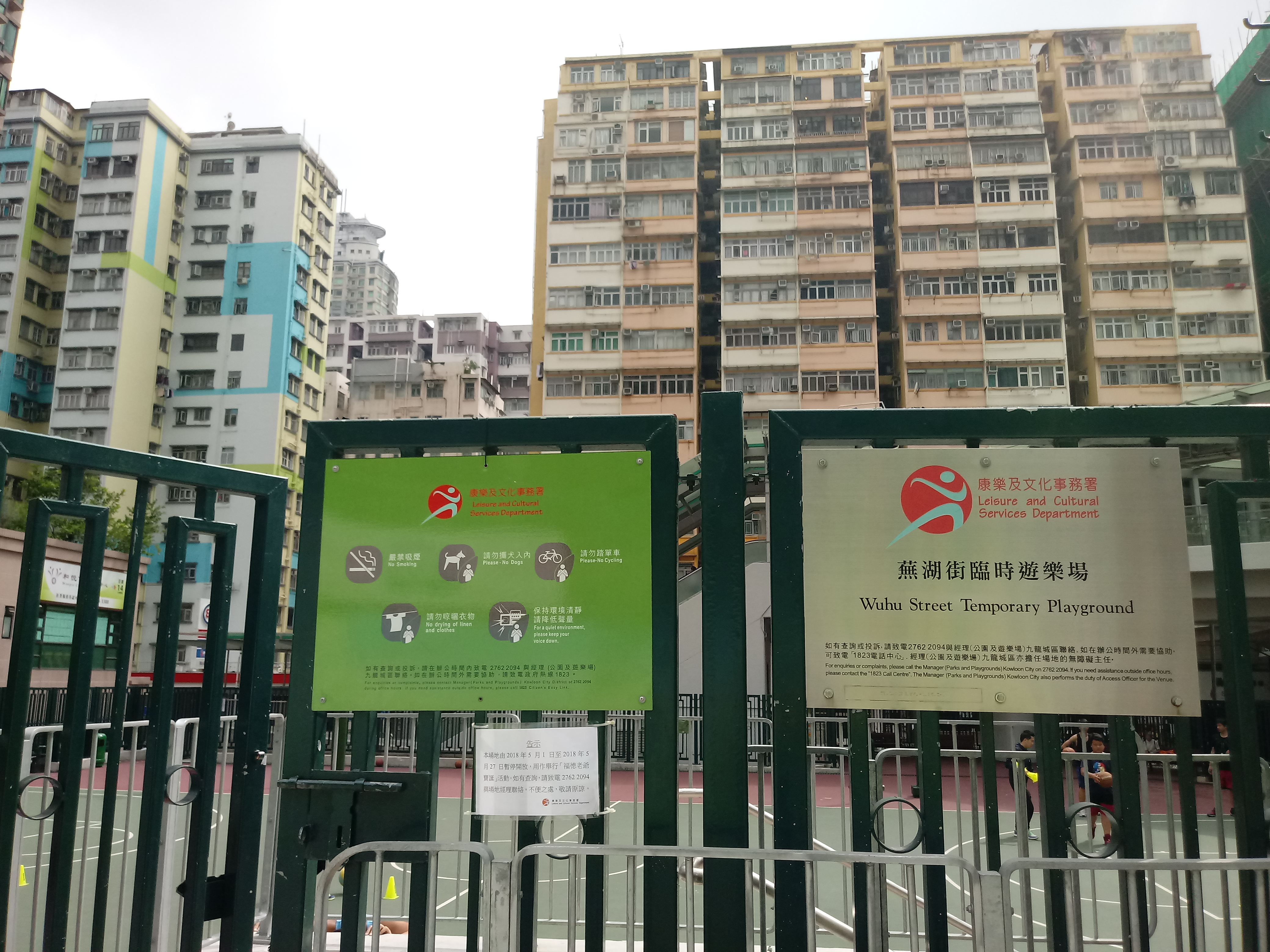 HK Chatham Road North 蕪湖街 臨時遊樂場 Wuhu Street Temporary Playground